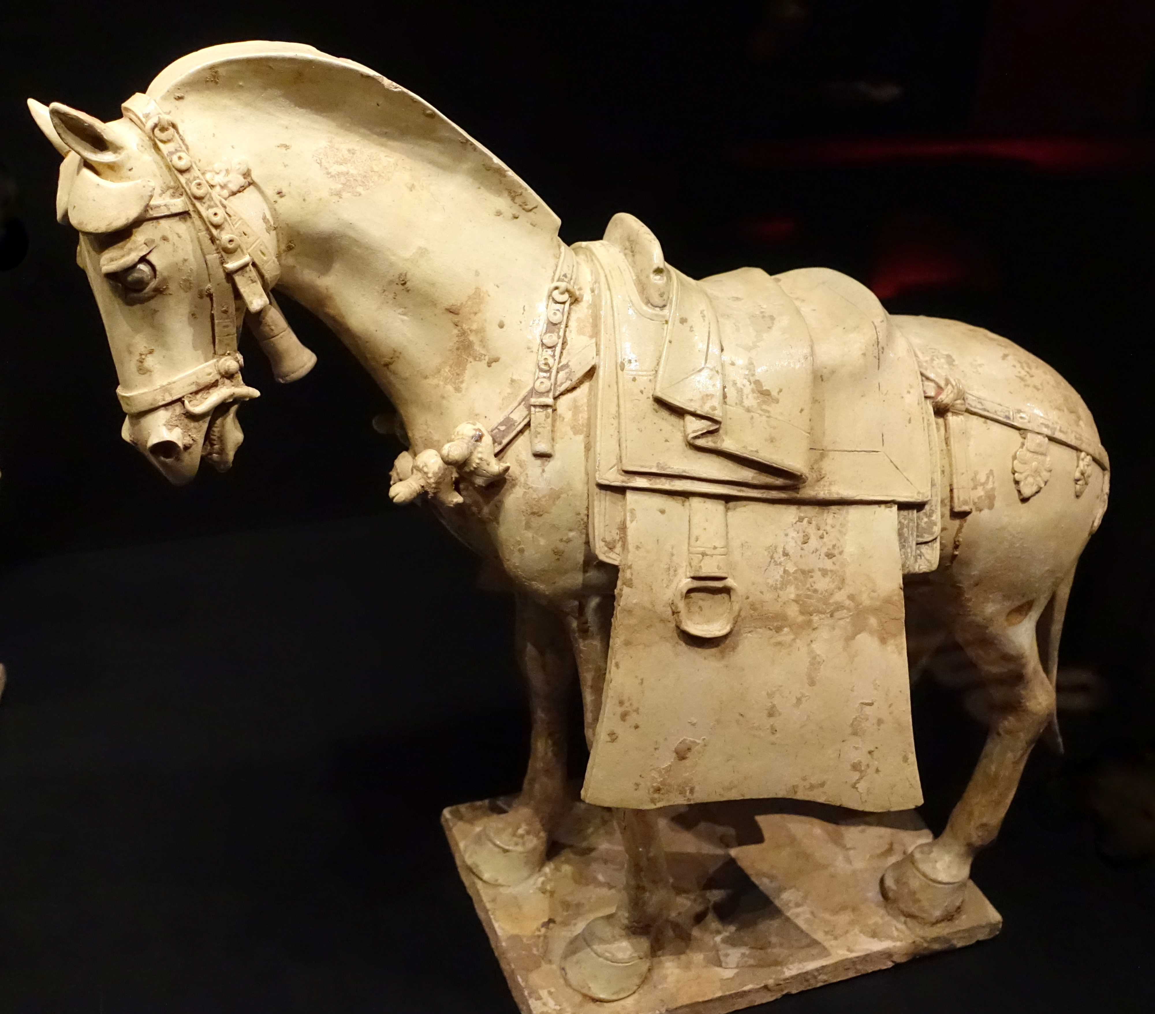 Exhibit in the Östasiatiska museet, Stockholm, Sweden. This artwork is old enough so that it is in the public domain.